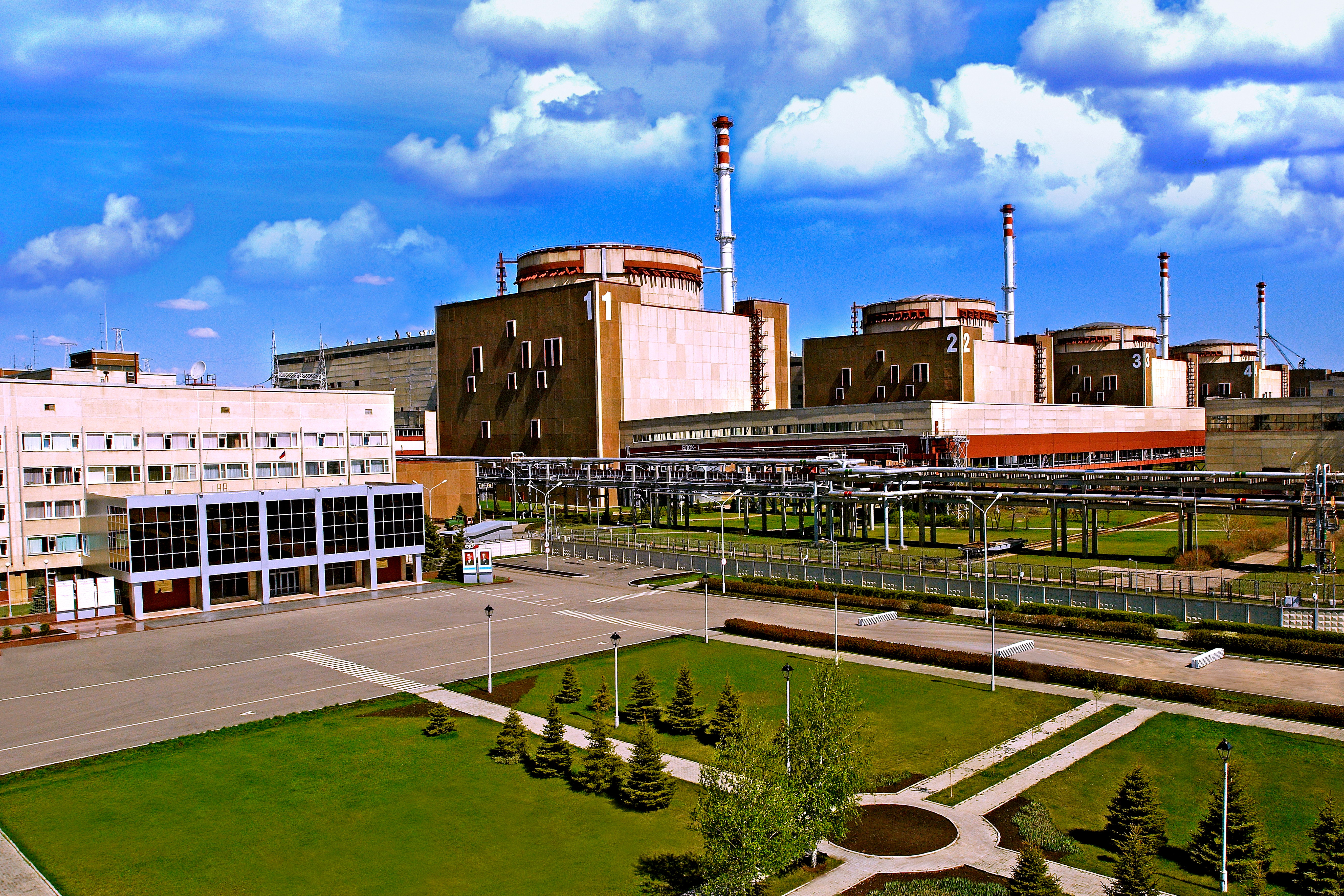 Unit one to four of the Balakovo Nuclear Power Plant